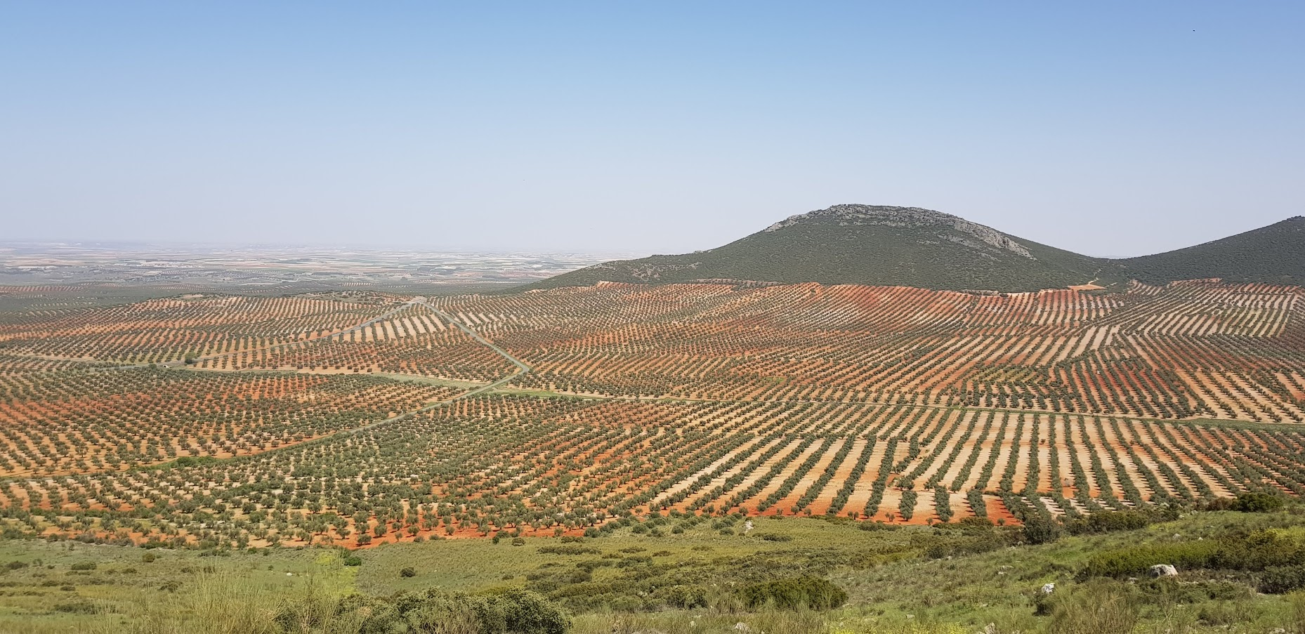 Olive trees in Mora de Toledo, Spain, view from the castle